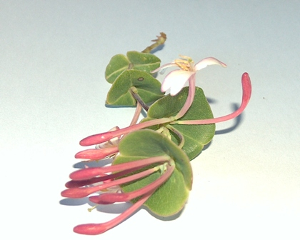 Flowers of Lonicera implexa (Caprifoglio)